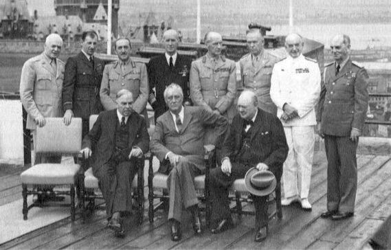 The 1943 Conference at Quebec. Present at this meeting in August 1943 were (seated, left to right) Prime Minister Mackenzie King, President Roosevelt and Prime Minister Churchill and (standing) General Arnold, Air Chief Marshal Portal, Field Marshal Brooke, Admiral King, Field Marshal Dill, General Marshall, Admiral Pound, and Admiral Leahy.